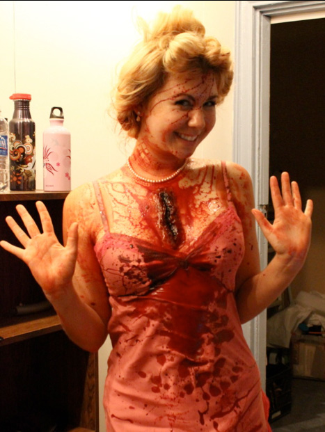 Scream Queen Nikki Bell behind the scenes of the film Alpha Girls